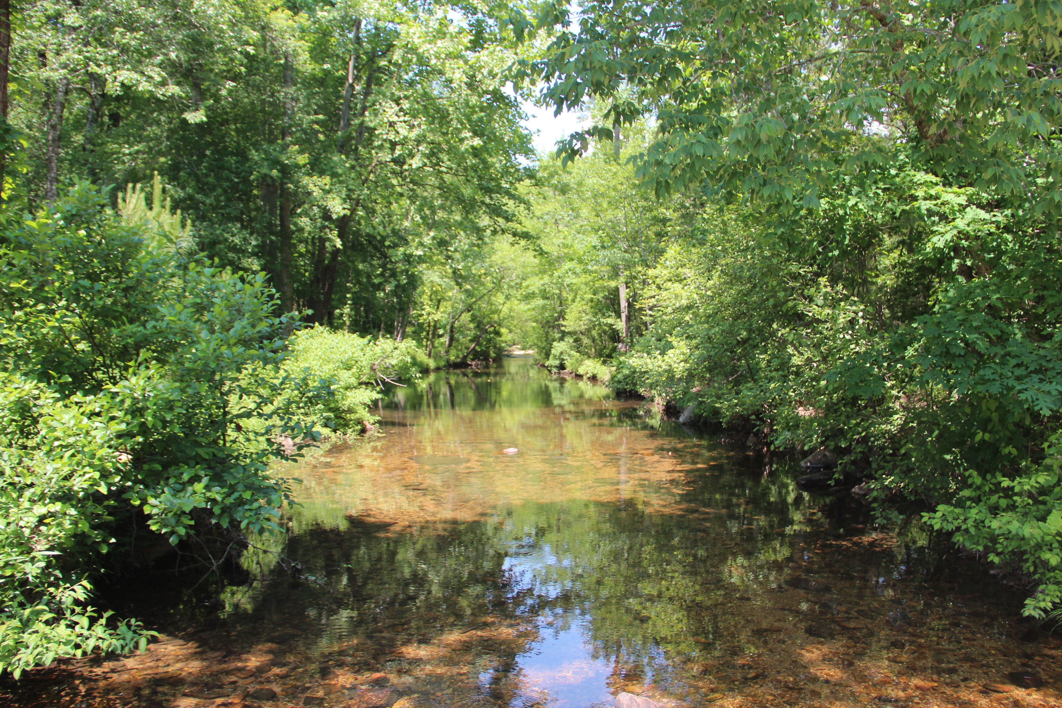 Pine Log WMA